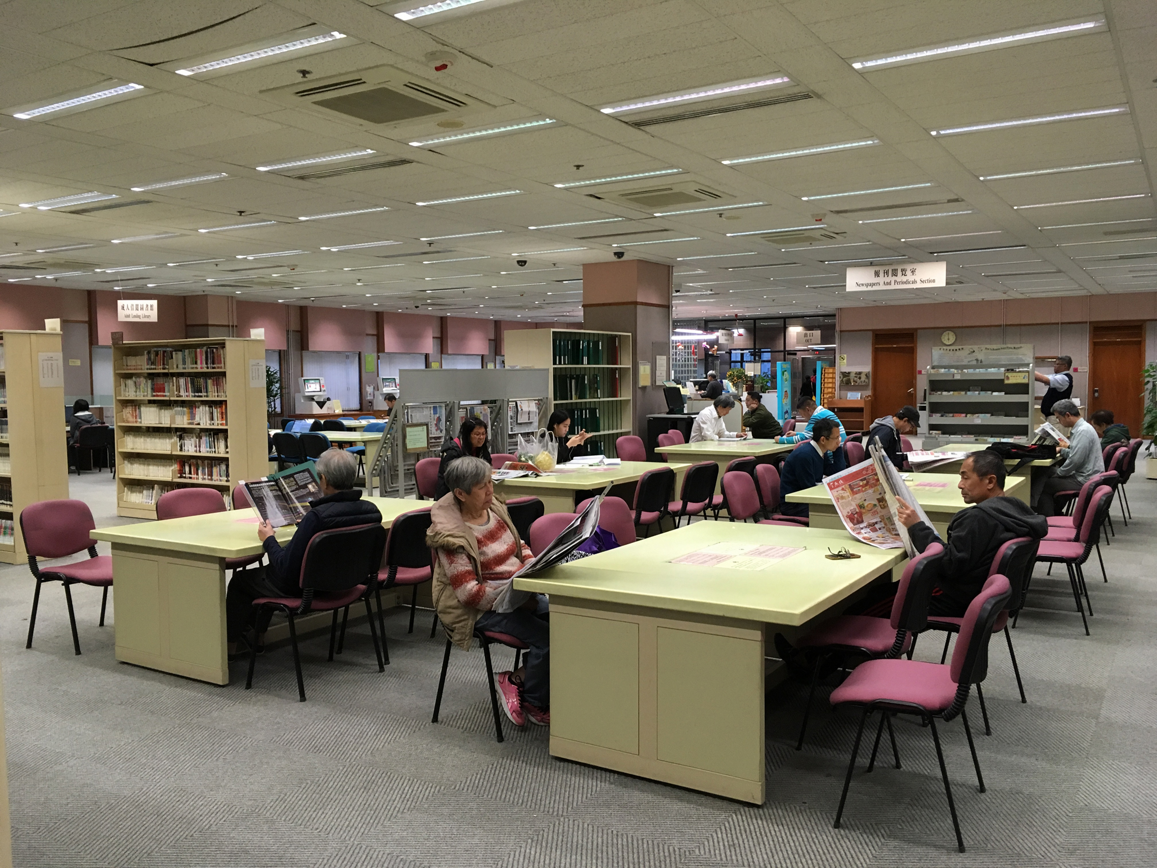 Smithfield Public Library interior